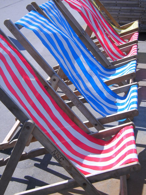 deckchairs Deck chairs for hire on the Promenade at Weston Super Mare